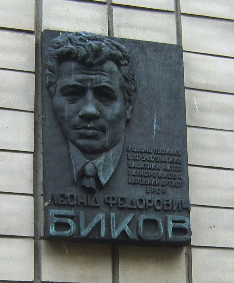 A plaque on the facade of Hovhannes Tumanyan street, 8, Kiev, where Leonid Bykov lived before his death.